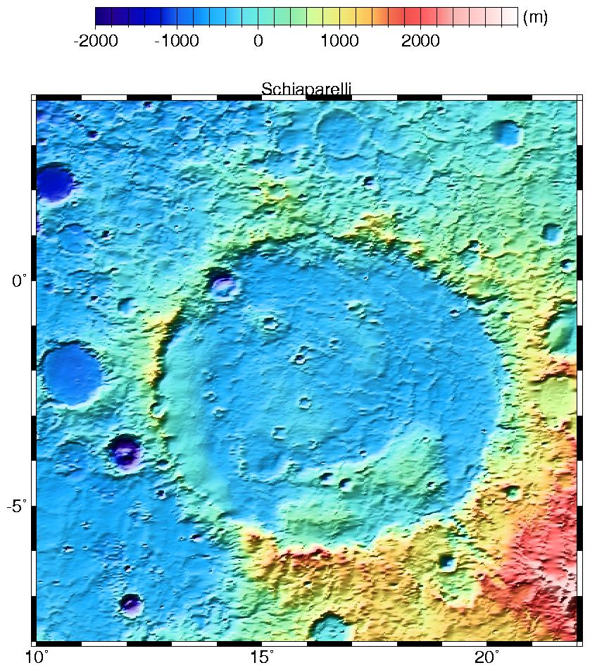 Schiaparelli crater on Mars as seen by the Mars Orbital Laser Altimeter (aboard the Mars Global Surveyor)